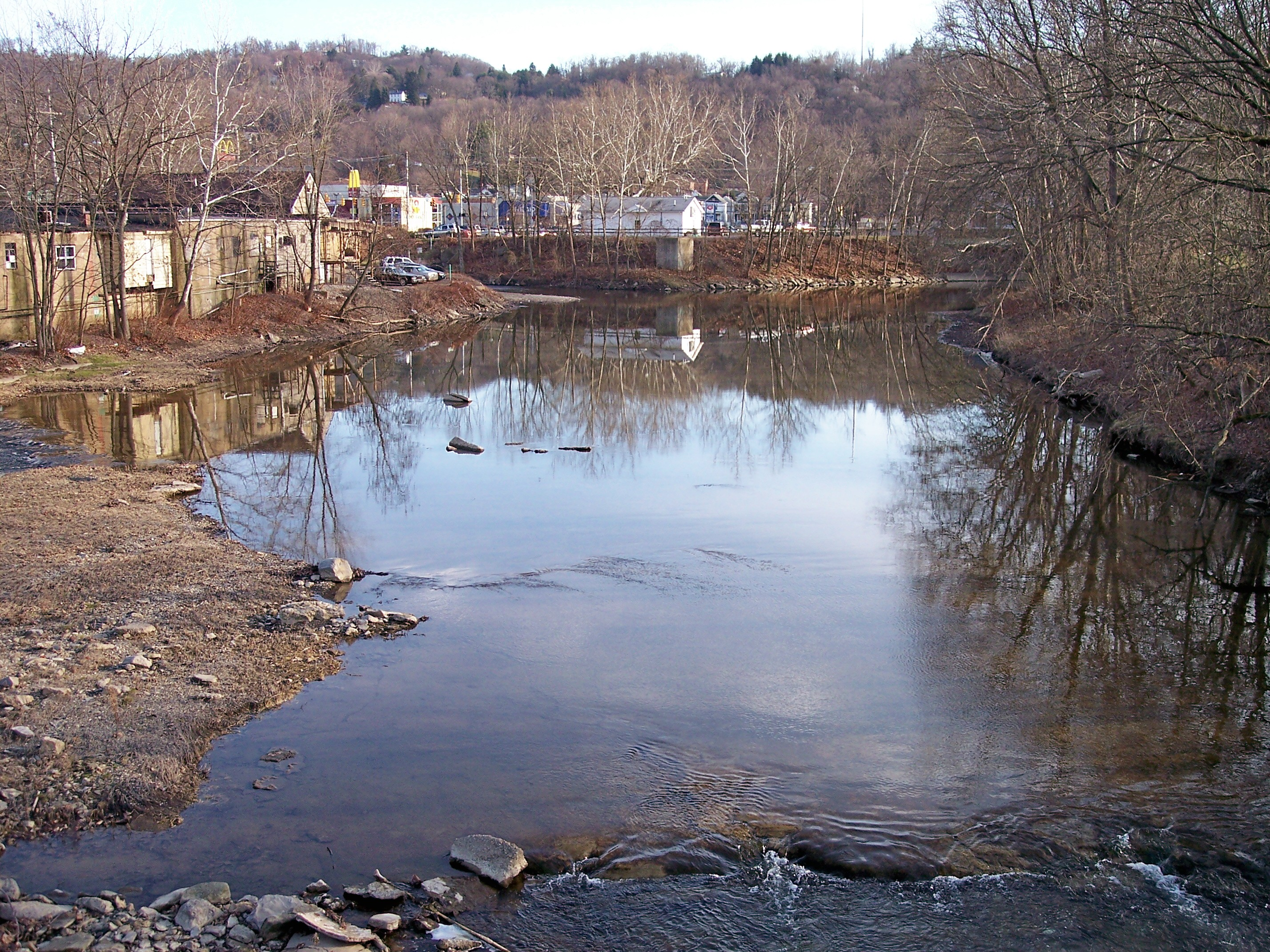 Wheeling Creek as viewed upstream from Junior Avenue in the Elm Grove neighborhood of Wheeling, West Virginia. The mouth of Little Wheeling Creek is visible at center-left in the distance.